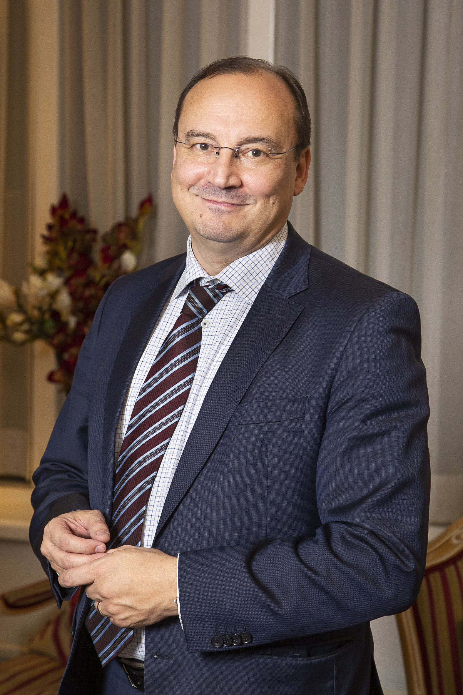 Picture of Jari Vilén